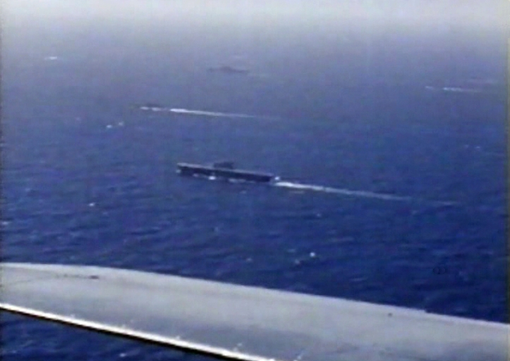 The U.S. Navy Task Force 16 with the aircraft carriers USS Enterprise (CV-6) and USS Hornet (CV-8) underway in May 1942.